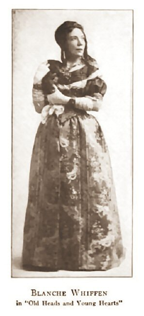 Actress Blanche Whiffin